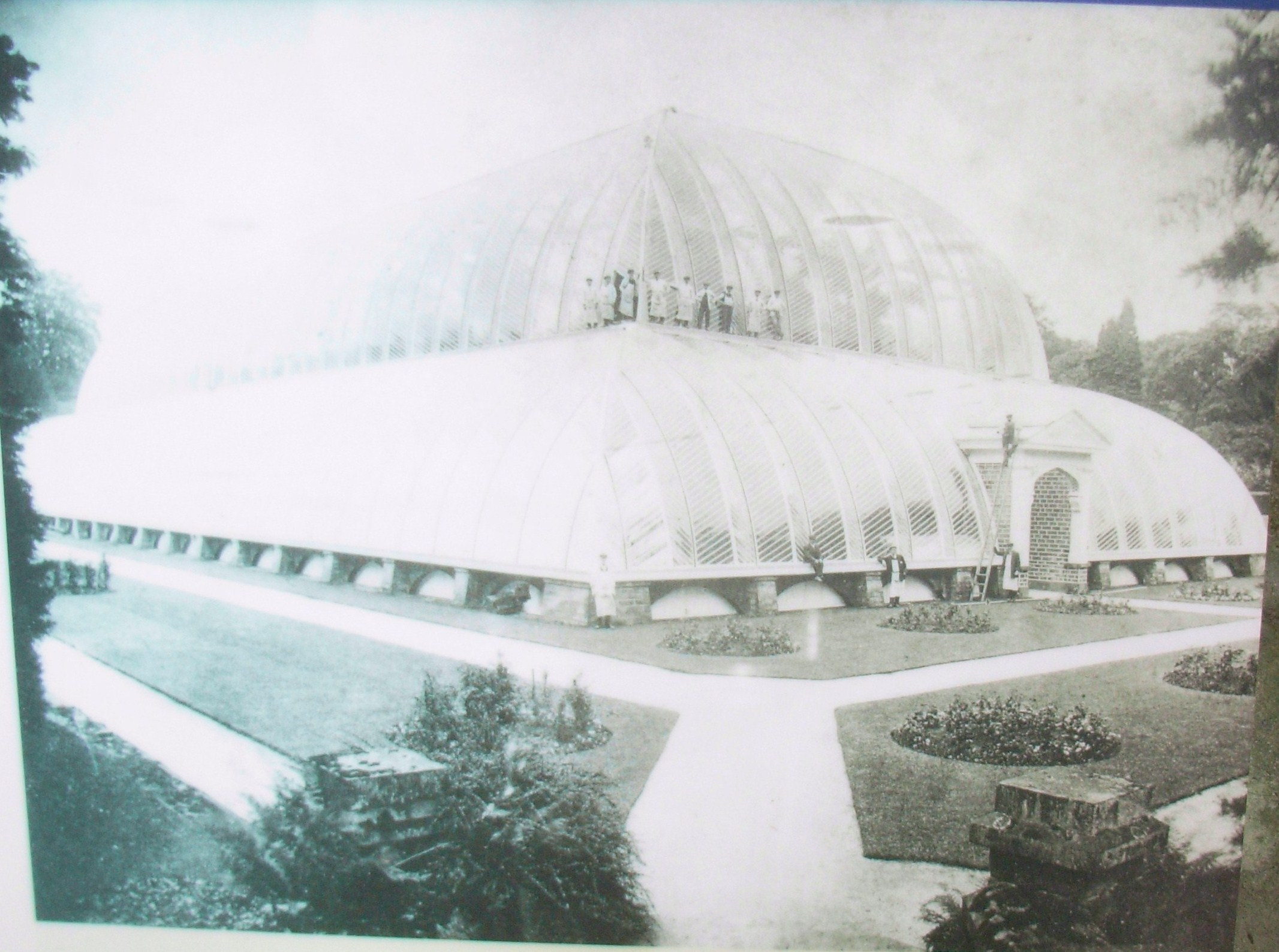 Chatsworth GardenGreatConservatory